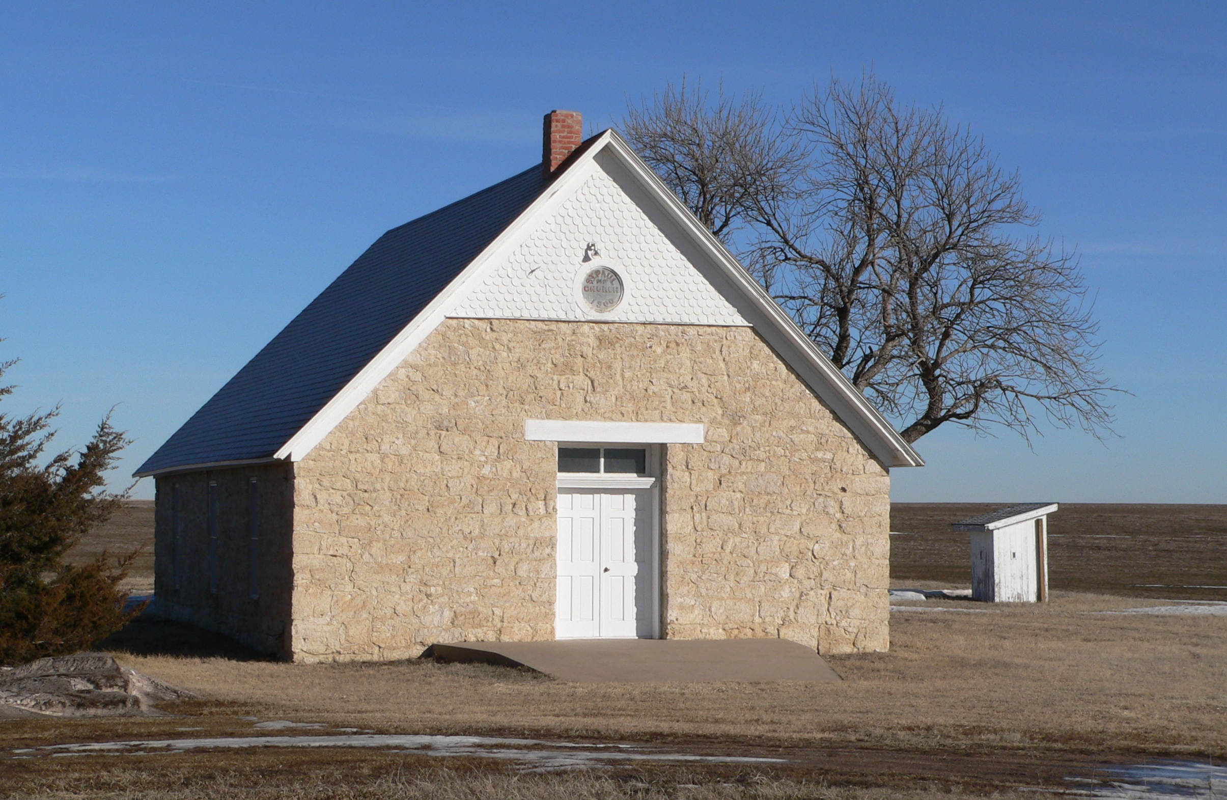 St. Paul's Methodist Protestant Church, aka Stone Church; located south of Culbertson in Hitchcock County, Nebraska; seen from the southwest. The building was constructed in 1900, and is listed in the National Register of Historic Places. Regular religious services are no longer held at the church.